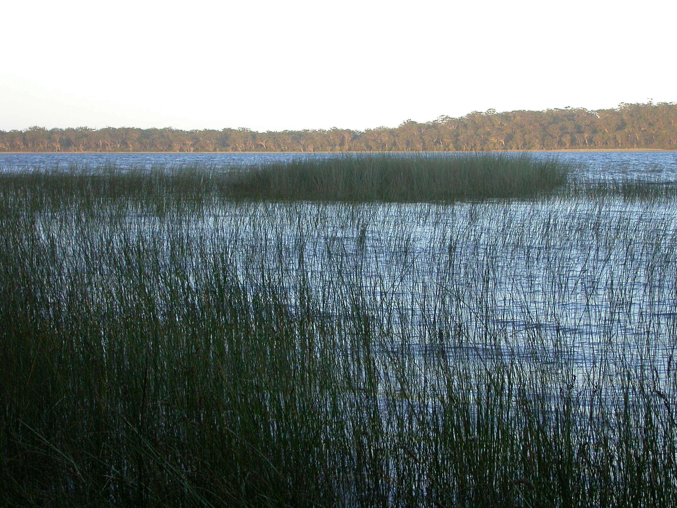 Habitat of Sternopriscus weiri in Australia, New South Wales, Yuraygir NP, Minnie Water Lake.